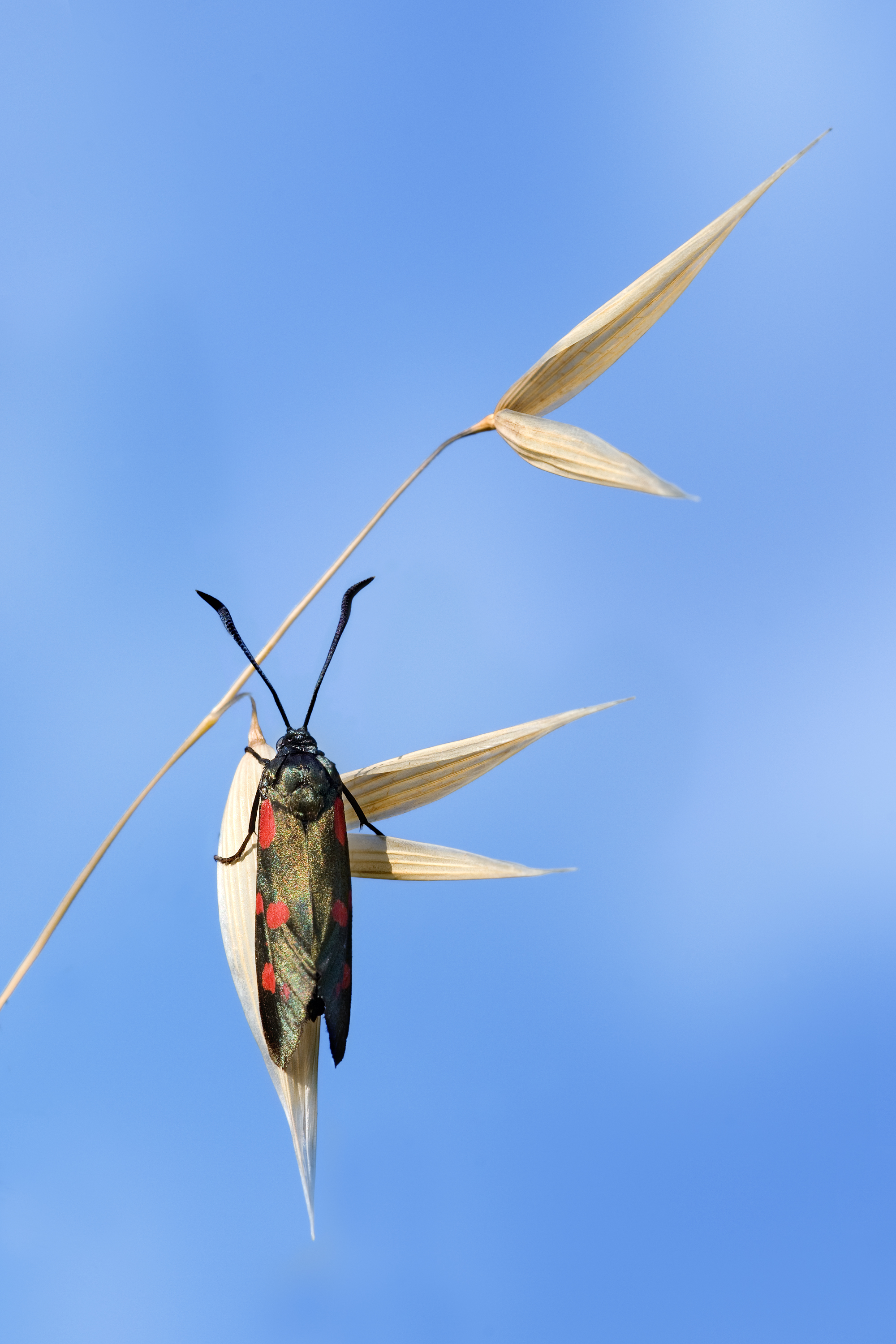 The Six-spot Burnet (Zygaena filipendulae) is a day-flying moth of the family Zygaenidae. It is a common species throughout Europe.